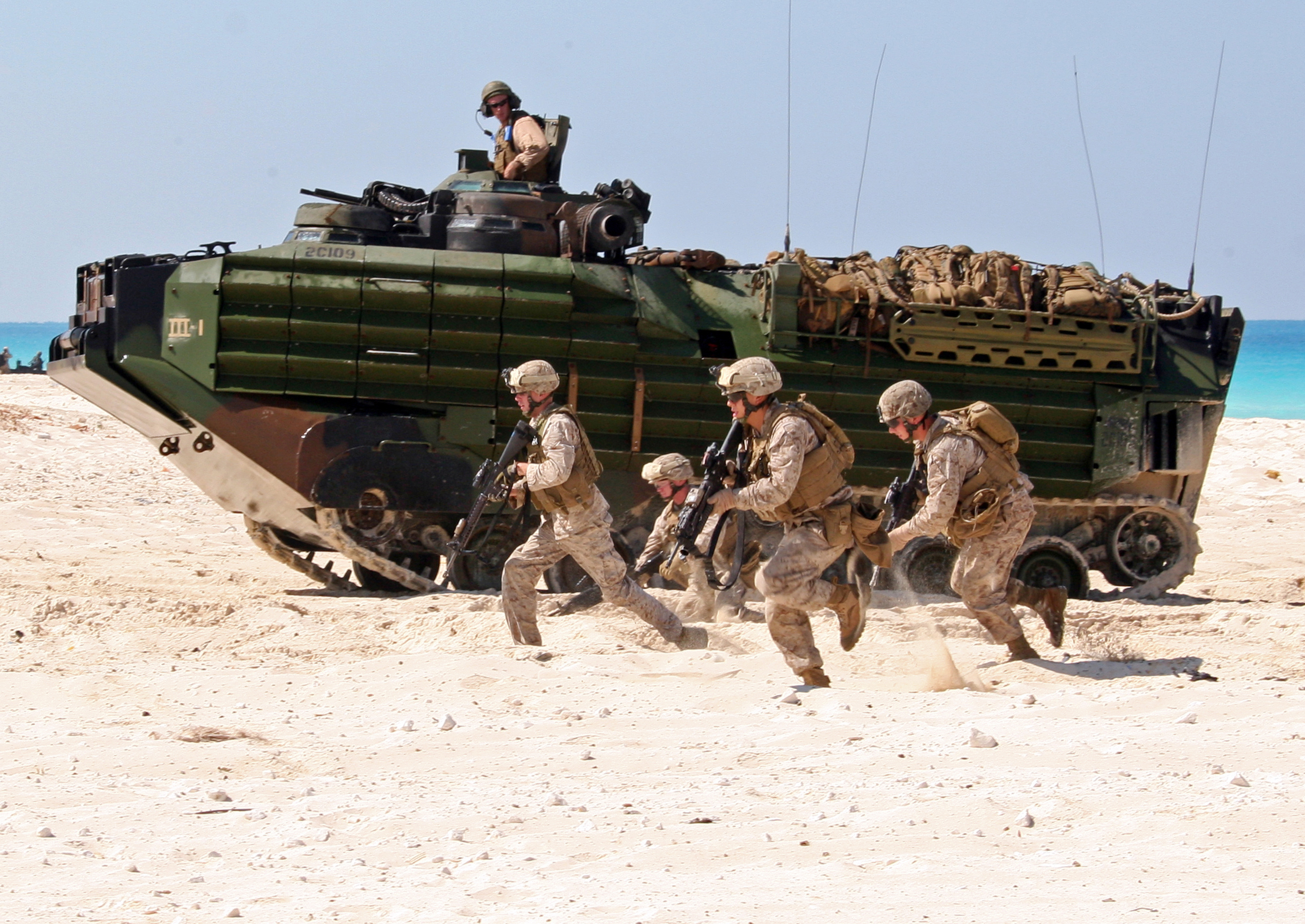 ALEXANDRIA, Egypt (Oct. 12, 2009) Marines and Sailors assigned to the 22nd Marine Expeditionary Unit (22nd MEU), the Bataan Amphibious Ready Group and coalition forces conduct an amphibious landing demonstration at Egyptian beaches near Alexandria during Exercise Bright Star 2009. (U.S. Marine Corps photo by Cpl. Theodore W. Ritchie/Released)